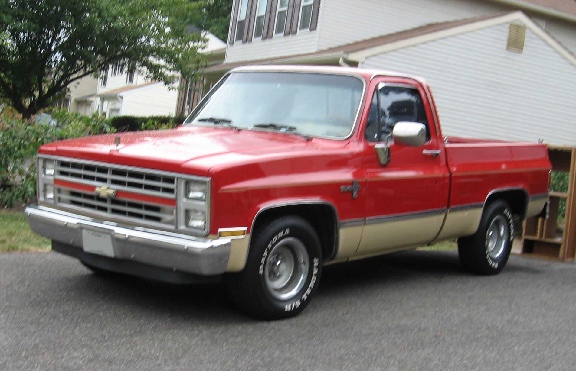 1985-1987 Chevrolet C/K photographed in USA.